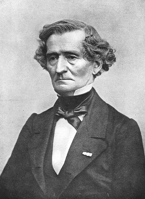 Photo of Hector Berlioz (1803–1869)